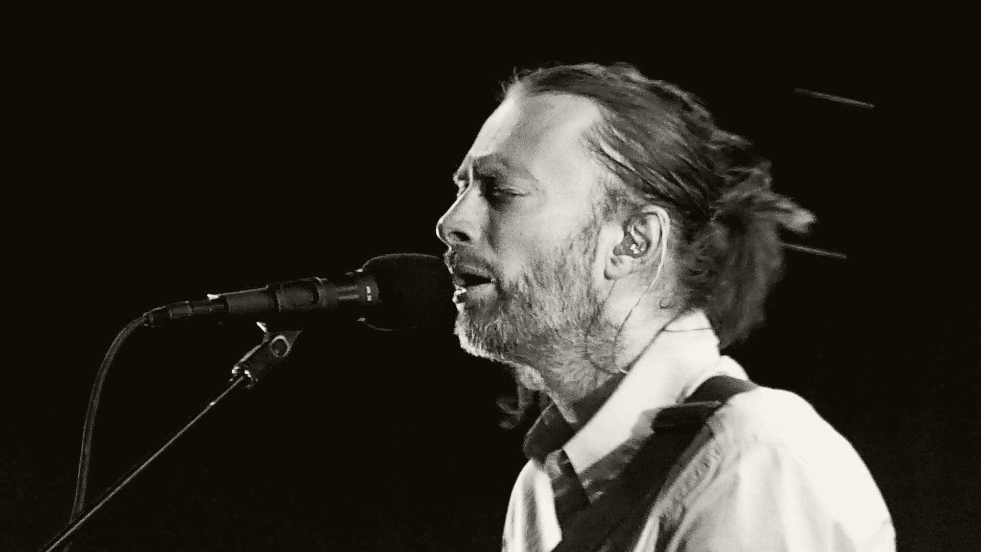 Thom Yorke in concert with Radiohead. Nimes, 11 July 2012.